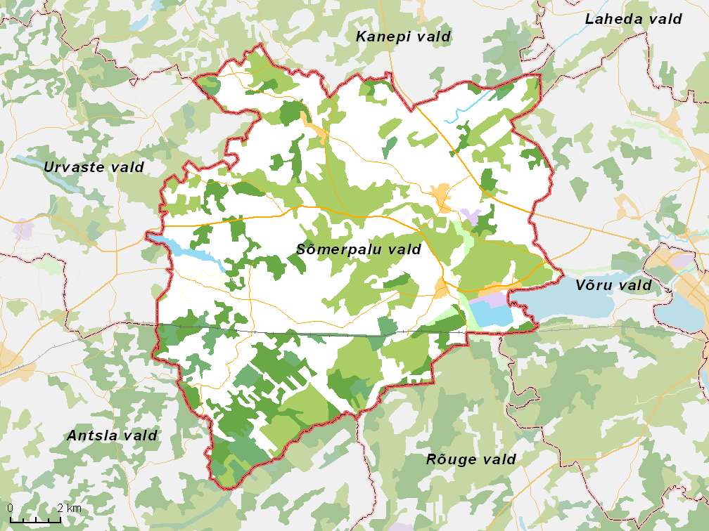 Map of municipality in Estonia